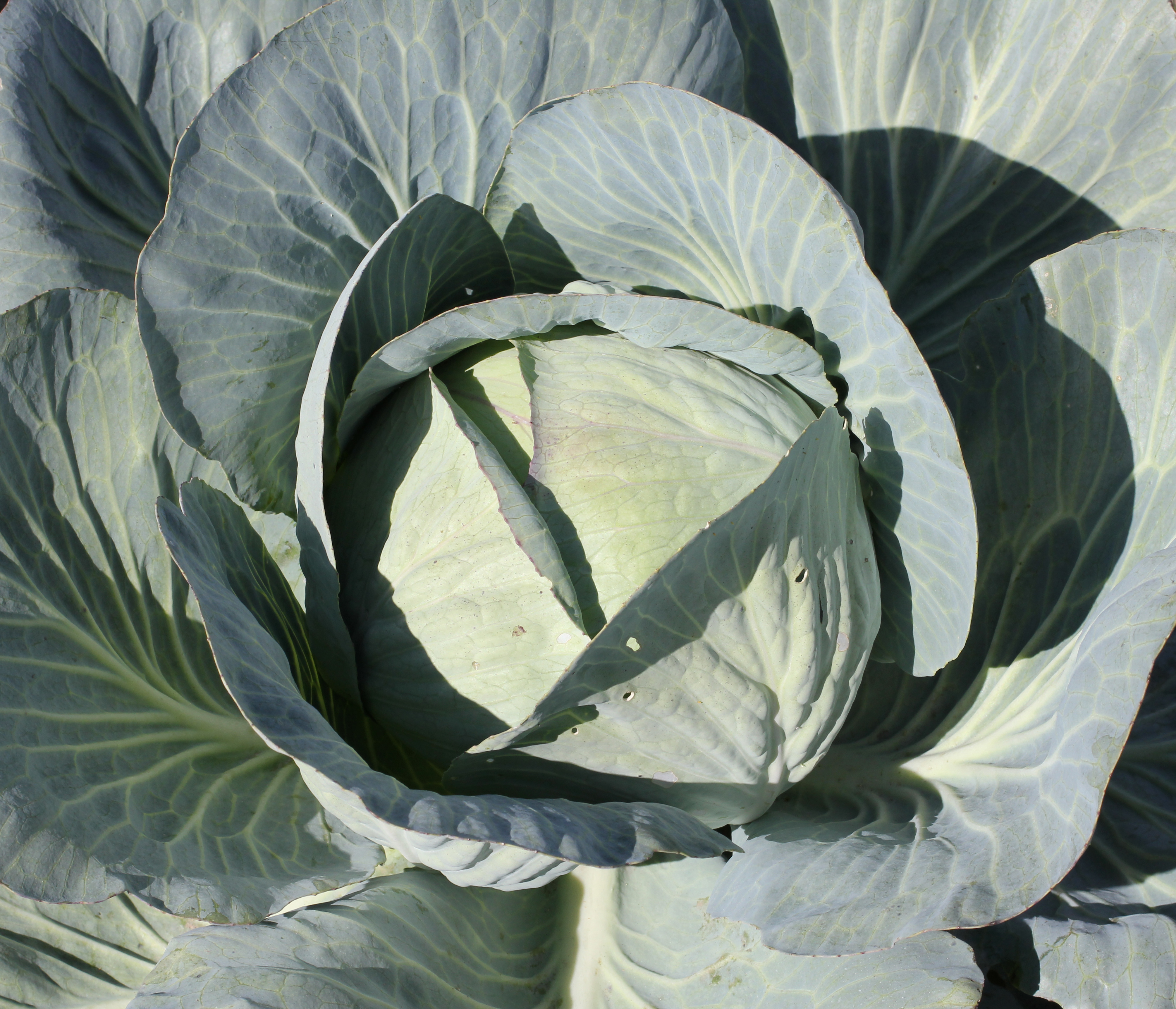 Cabbage (Brassica oleracea) in a kitchen garden.